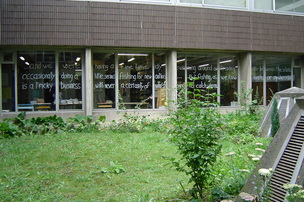 Patio de la bibliothèque